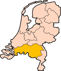 Map for localisazion of the province of Noord Brabant in the Netherlands.